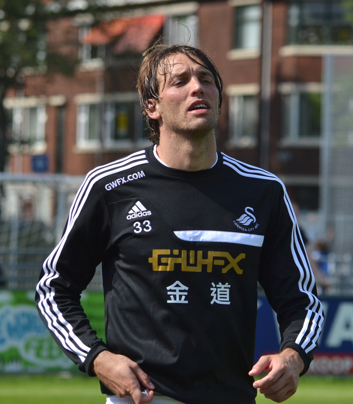 Michu during 2012/13 pre-season tour with Swansea.